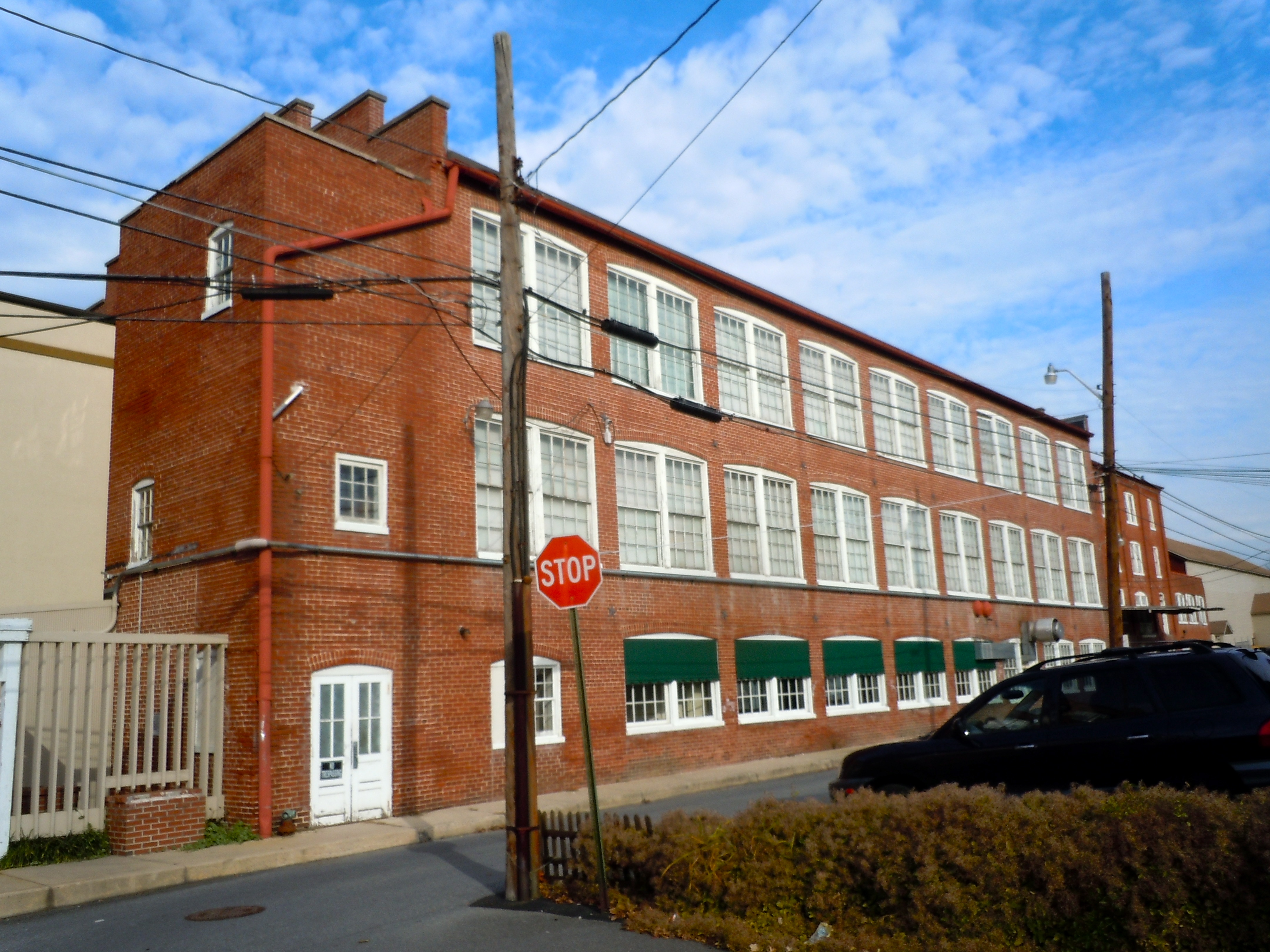 Building B, built 1919, of the Eby Shoe Corporation on the NRHP since August 18, 1989. At 136 North State Street, Ephrata, Lancaster County, Pennsylvania.